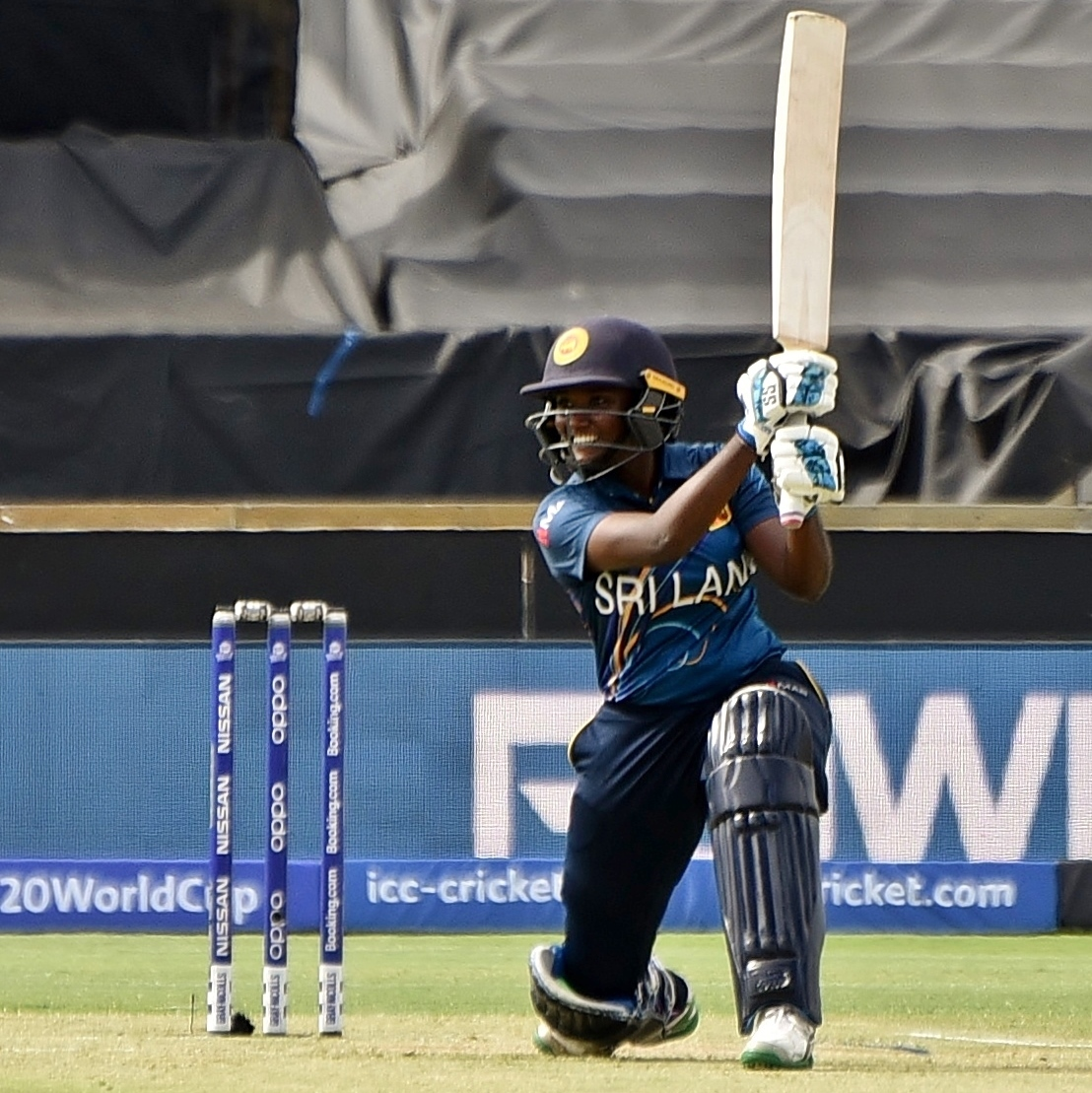 Umesha Thimashini batting for Sri Lanka against Australia during their 2020 ICC Women's T20 World Cup match at the WACA Ground in Perth, Australia